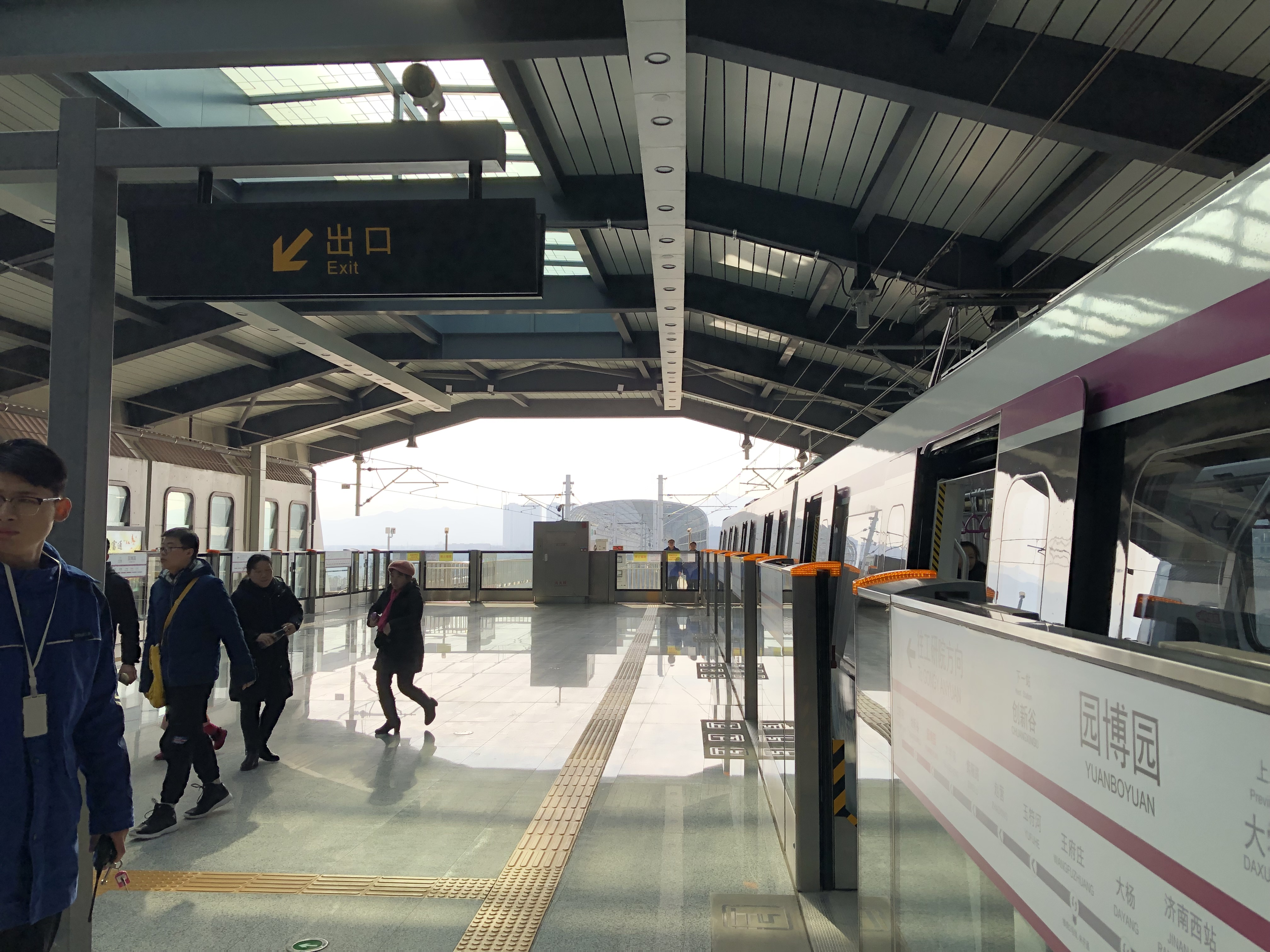 Garden Expo Park Station (Jinan Metro), another view.